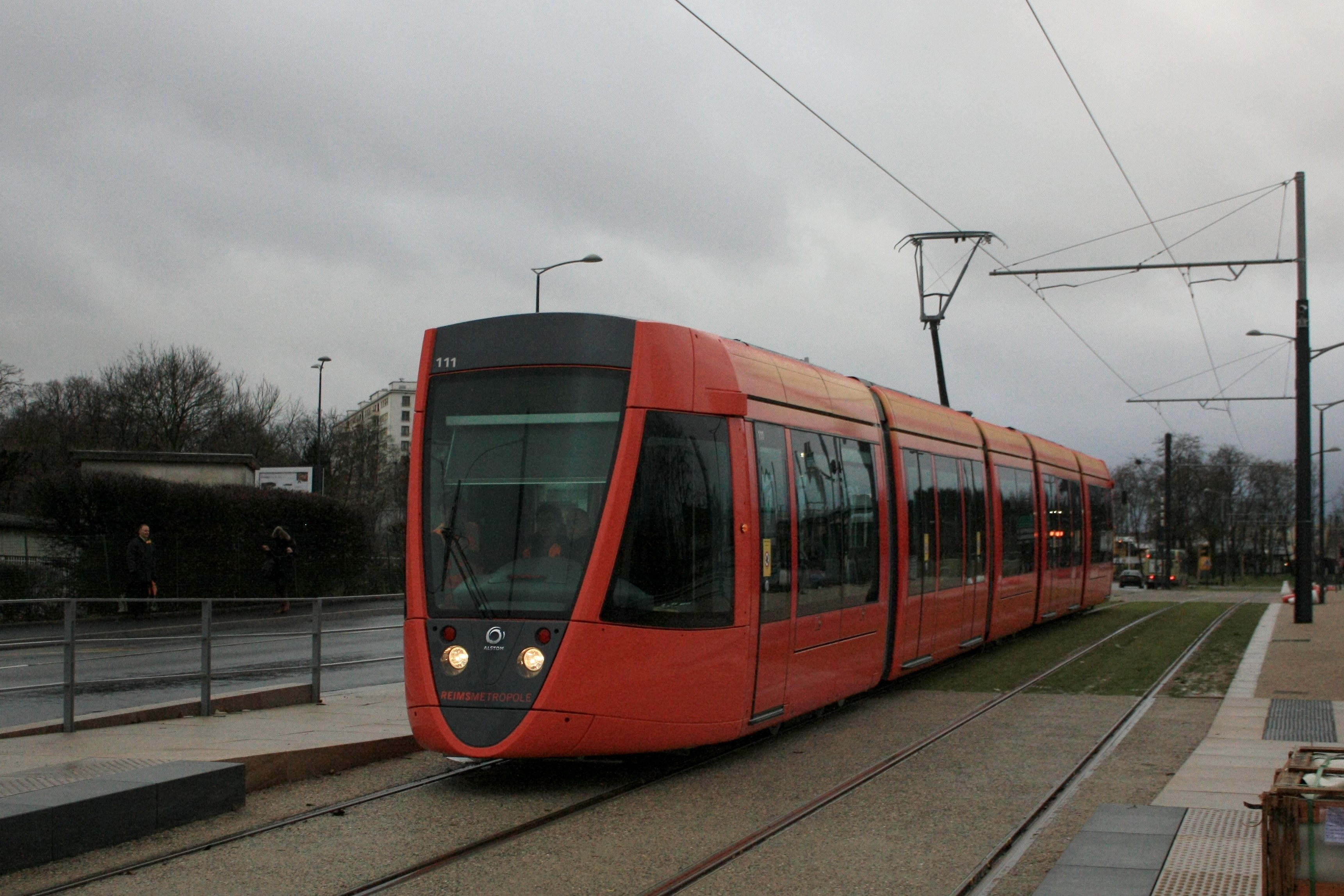 Alstom Citadis TGA 302 TORA on test. Rheims France.